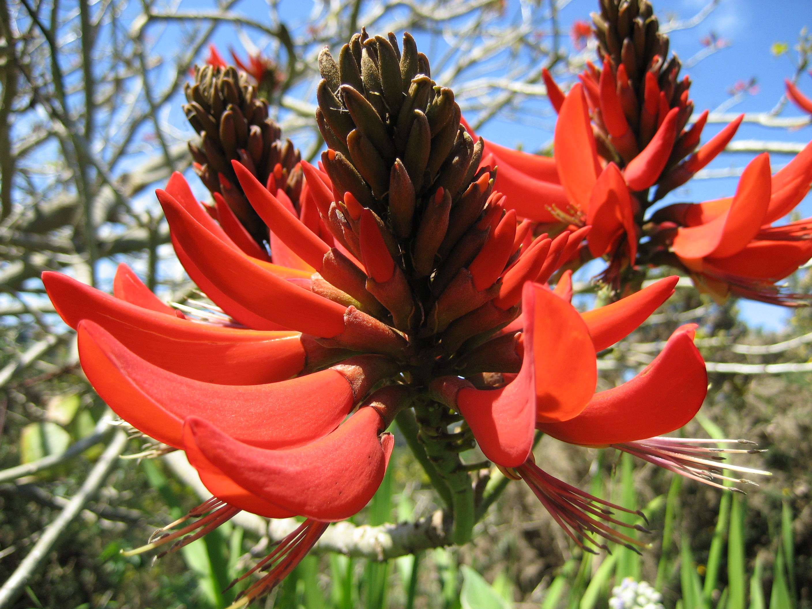 Erythrina ×sykesii (Coral tree) in flower, Auckland, New Zealand, 6 October 2006